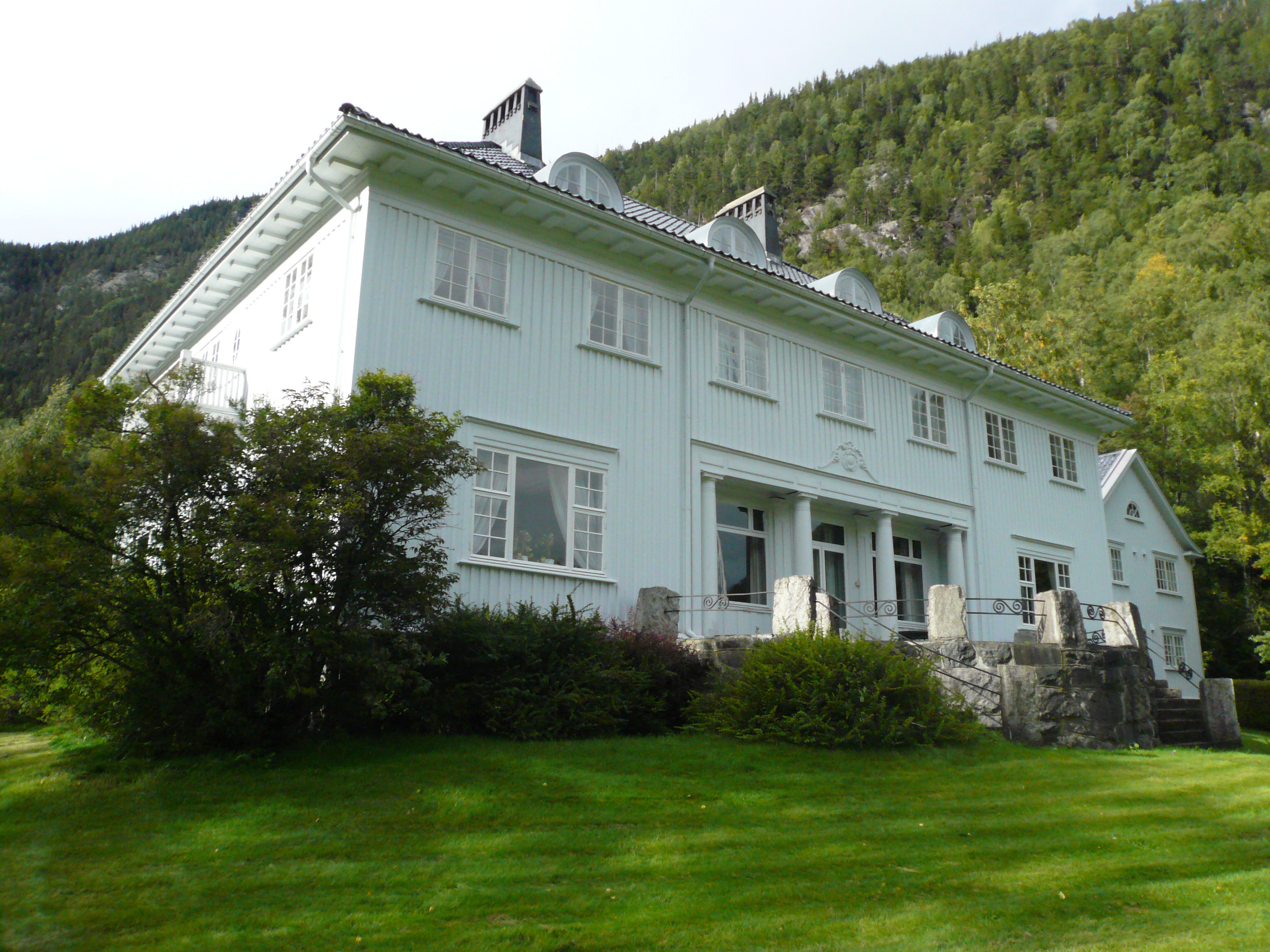 Admini, Rjukan